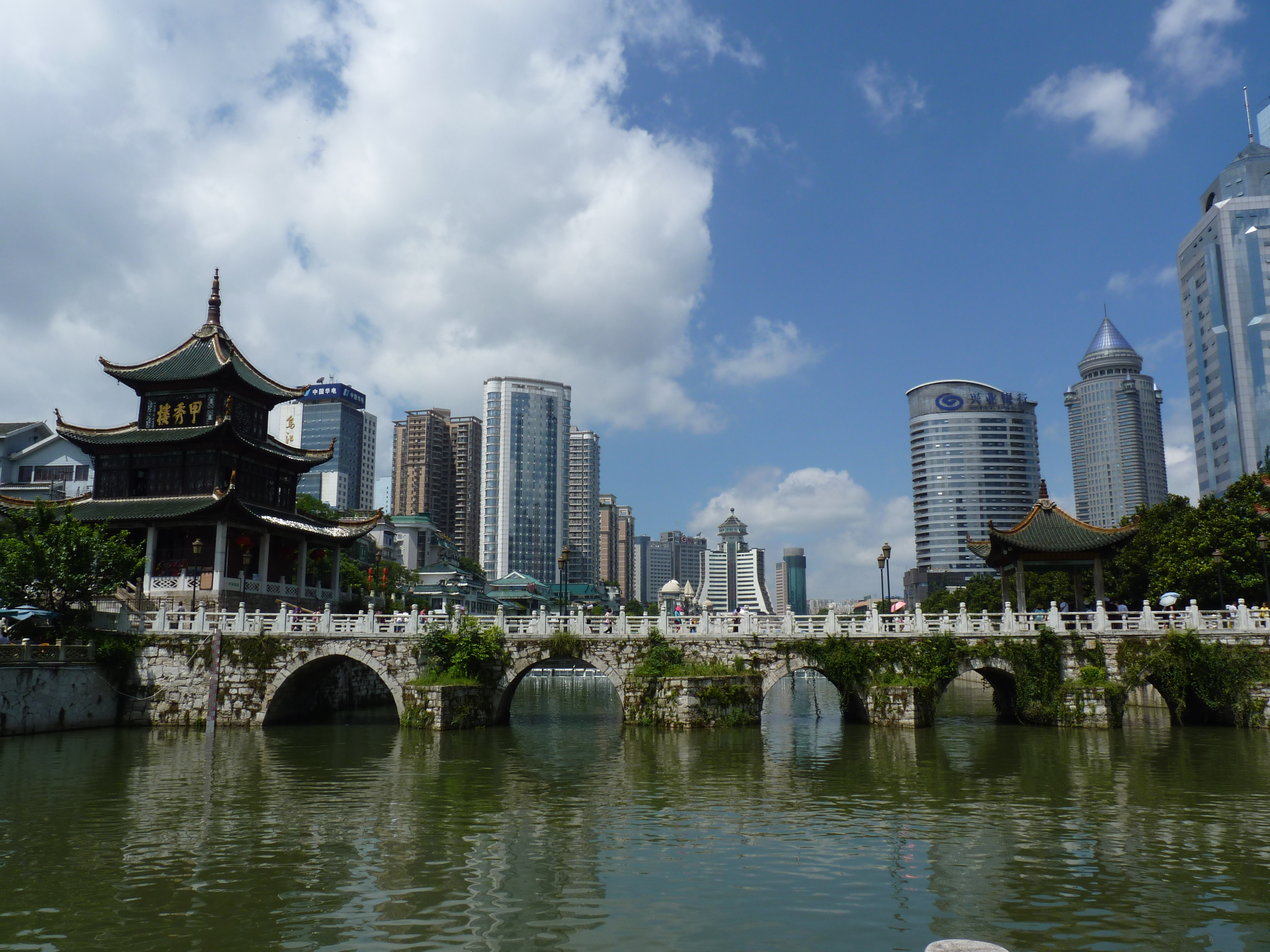 A view of Guiyang from the banks of Nanming river. At the left, the Jiaxiu Pavilion.